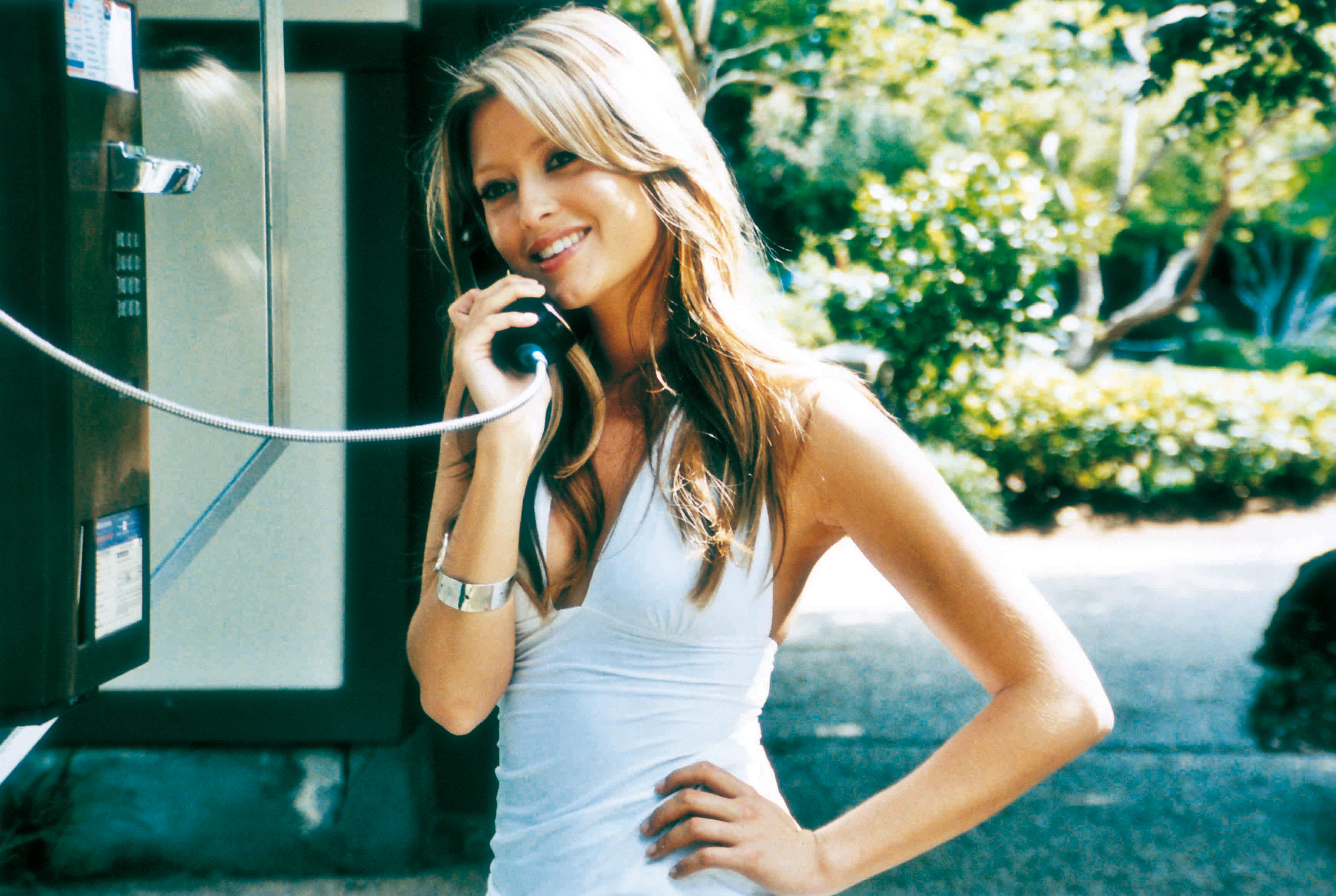 Holly Valance 1800 Reverse Yoga TVC